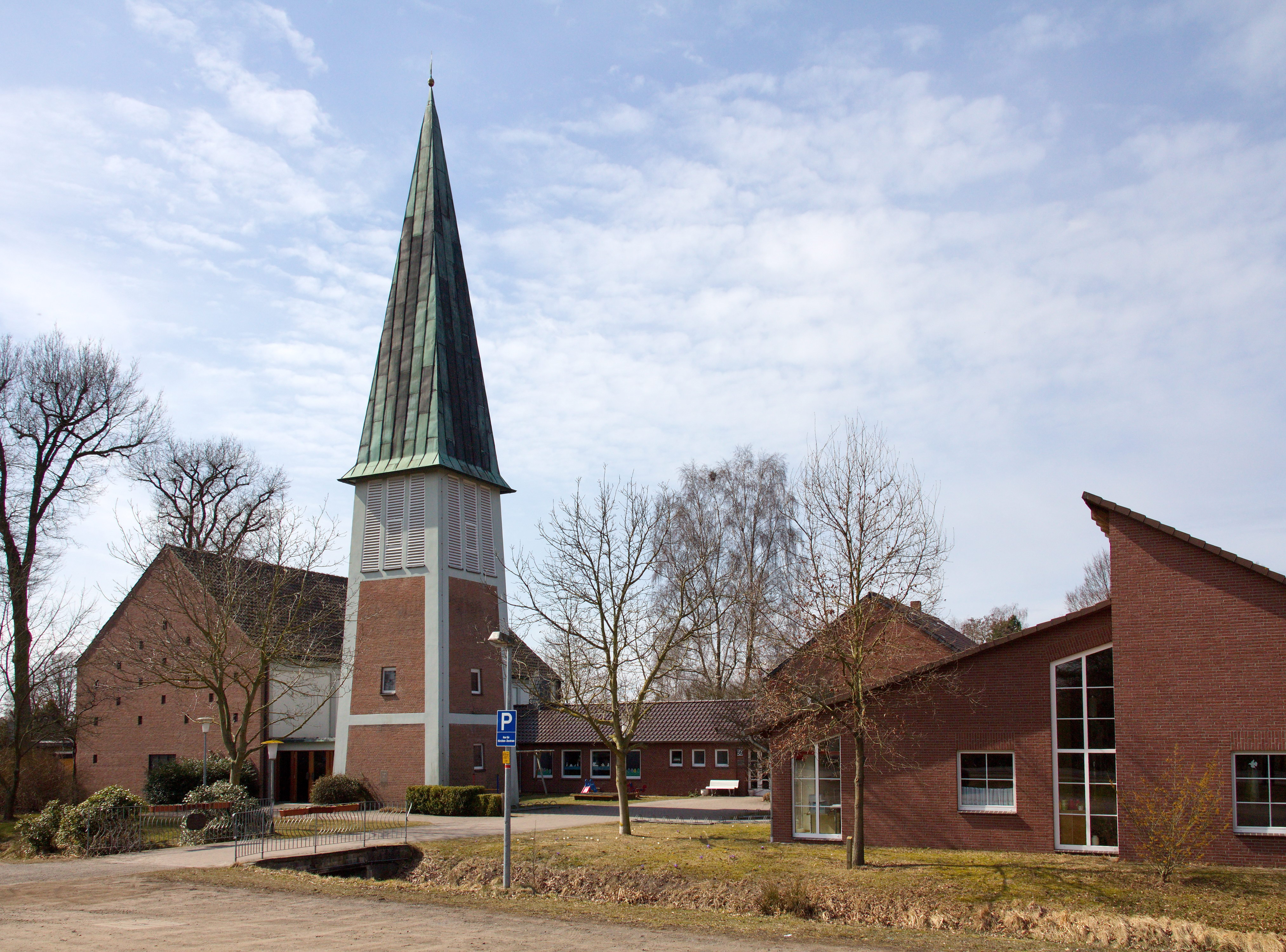 Neudorf-Platendorf (Sassenburg), Niedersachsen, Deutschland